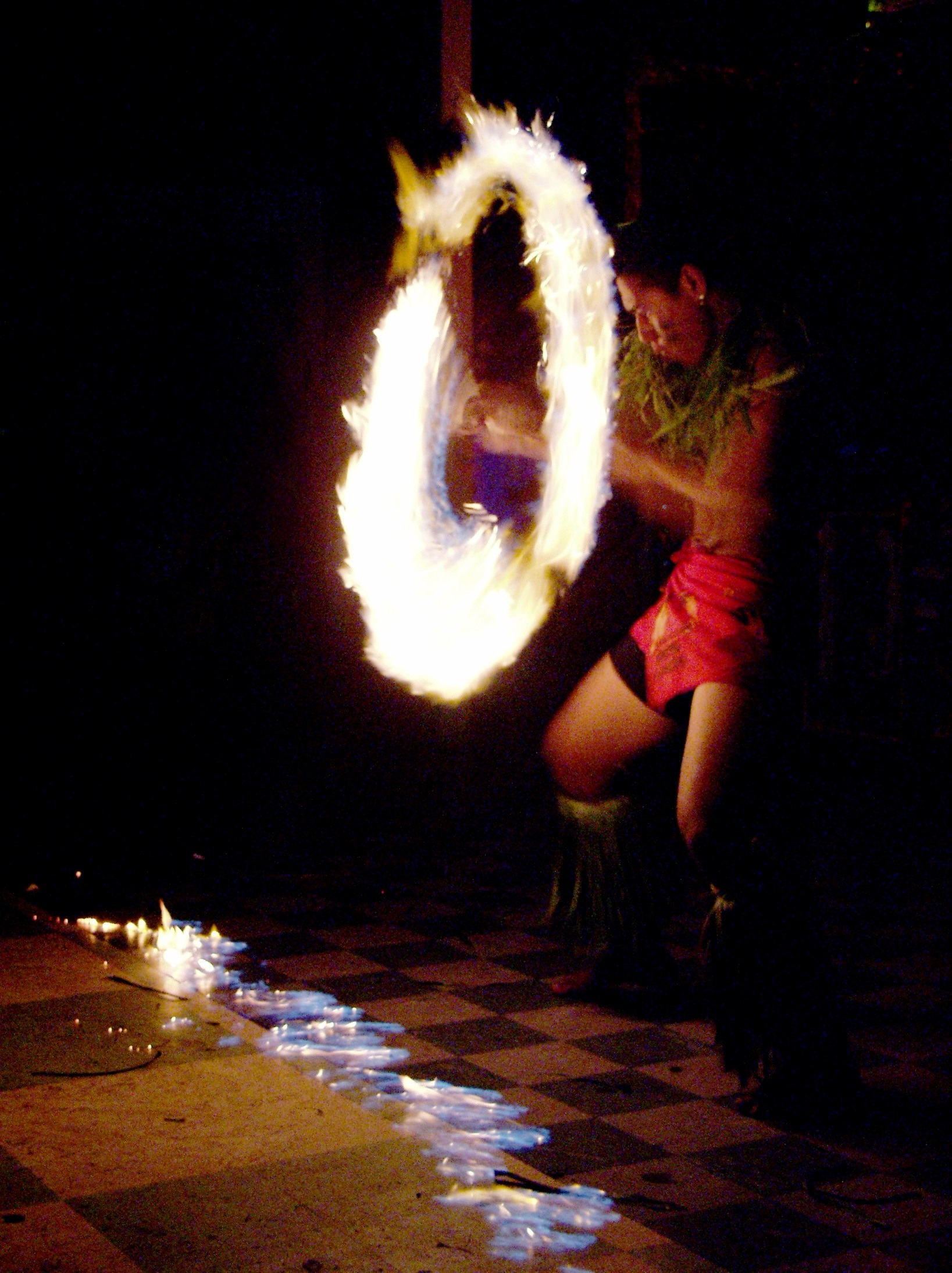 Siva afi or Samoan fire dance with the spun flame linking into a circle